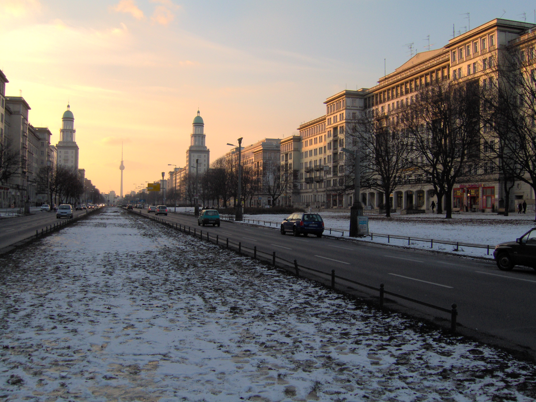 A picture of Berlin's Frankfurter Allee looking west.